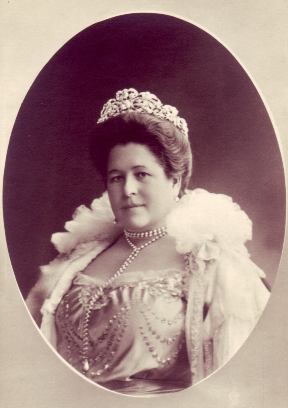 Princess Isabelle of Croÿ-Dülmen (1856-1931), later Archduchess Isabelle of Austria